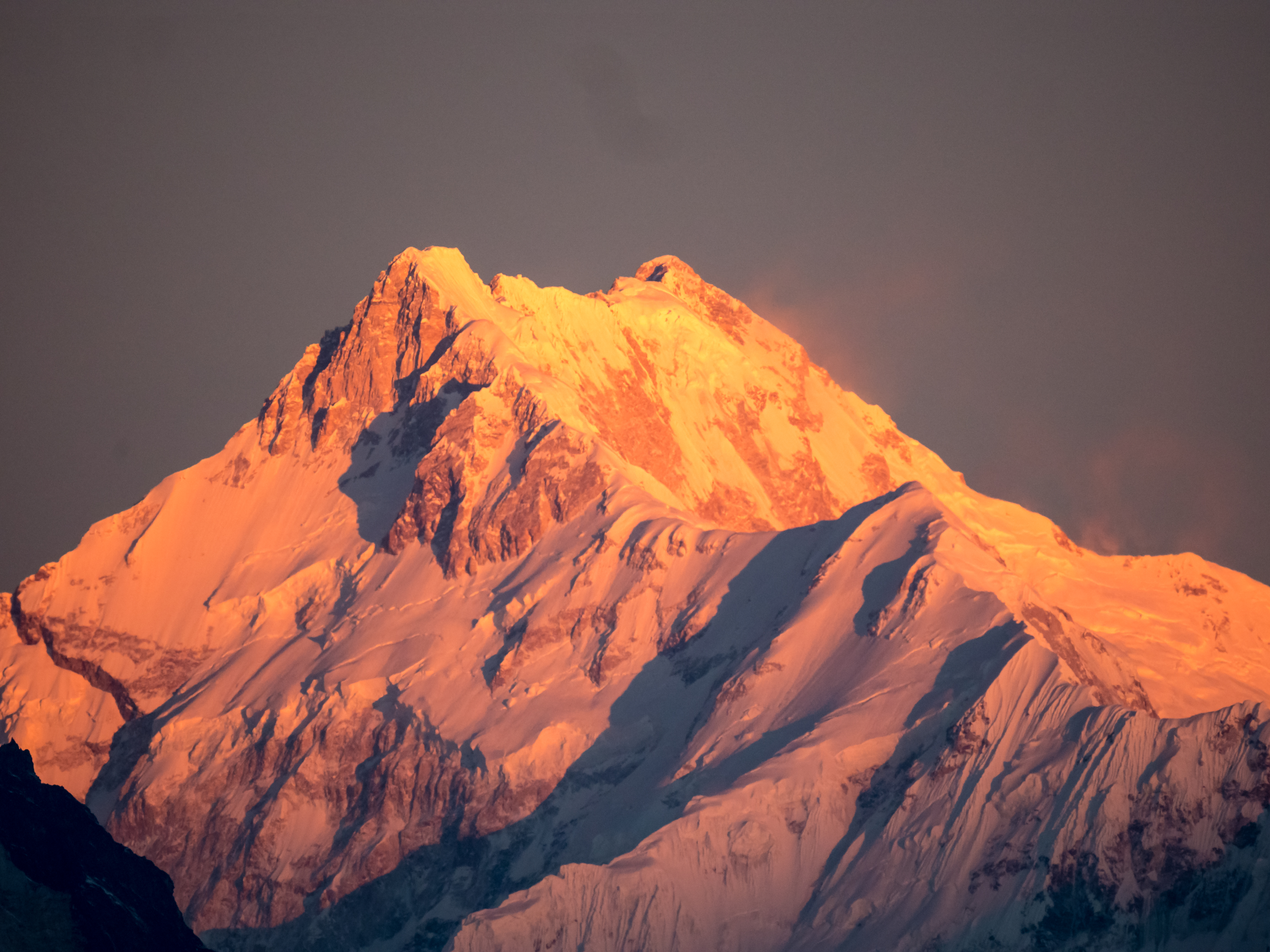 Foto taken in November, 2016, Panasonic GH3, Panasonic H-RS100400E LEICA DG VARIO-ELMAR, 400mm, derived from raw data with Adobe Photoshop Lightroom 6